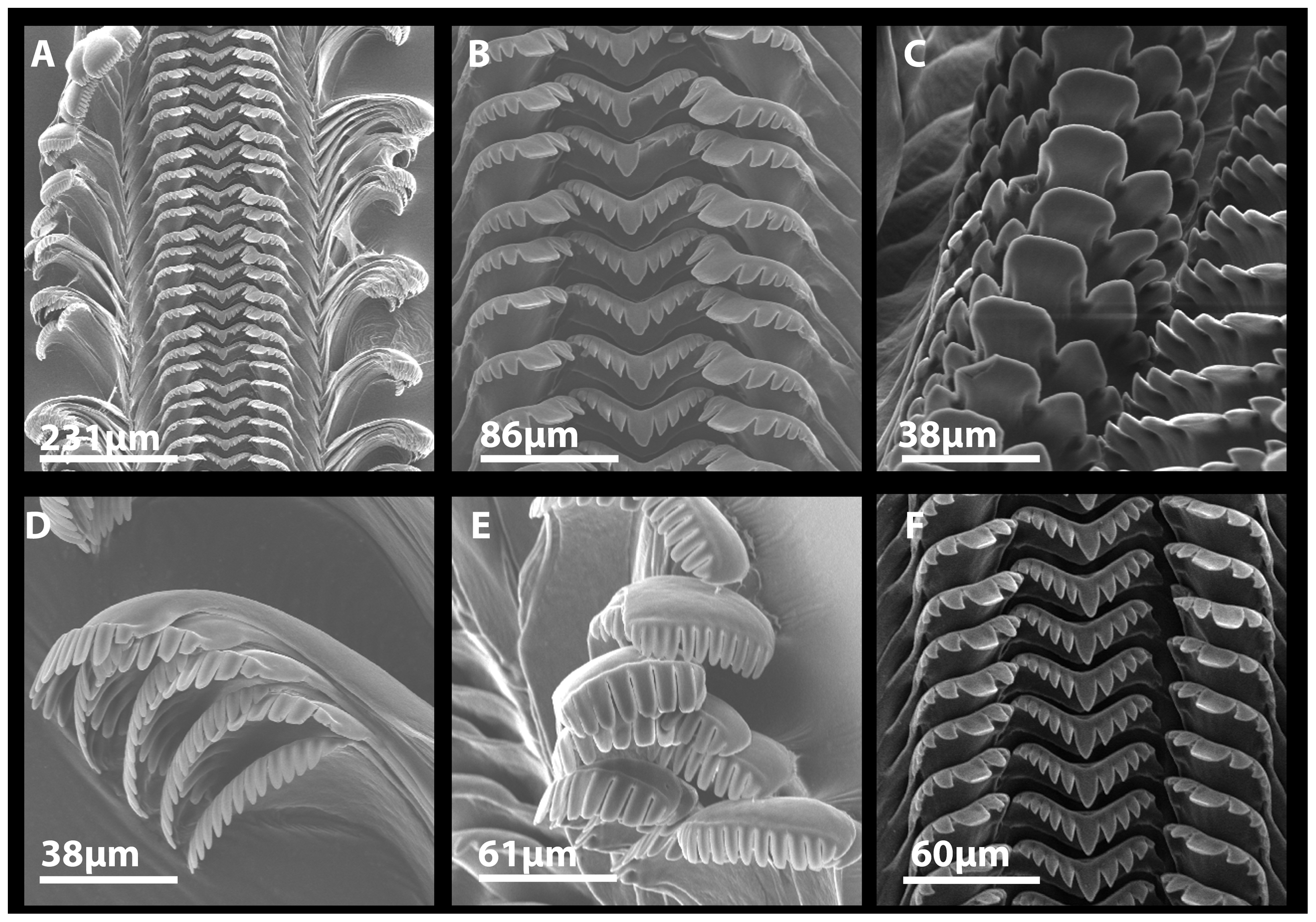 Scanning electron micrographs of Leptoxis compacta radulae collected in May 2011 (A–E) and the radula of a historically collected individual (F). A) Section of anterior radular ribbon. B) Detailed view of rachidian and lateral teeth. C) View of lateral teeth at 45 degree angle, and slightly rotated counter-clockwise. D–E) Views of marginal teeth showing variation between individuals. F) Rachidian and lateral teeth removed from individual collected in 1881 (USNM 509539).